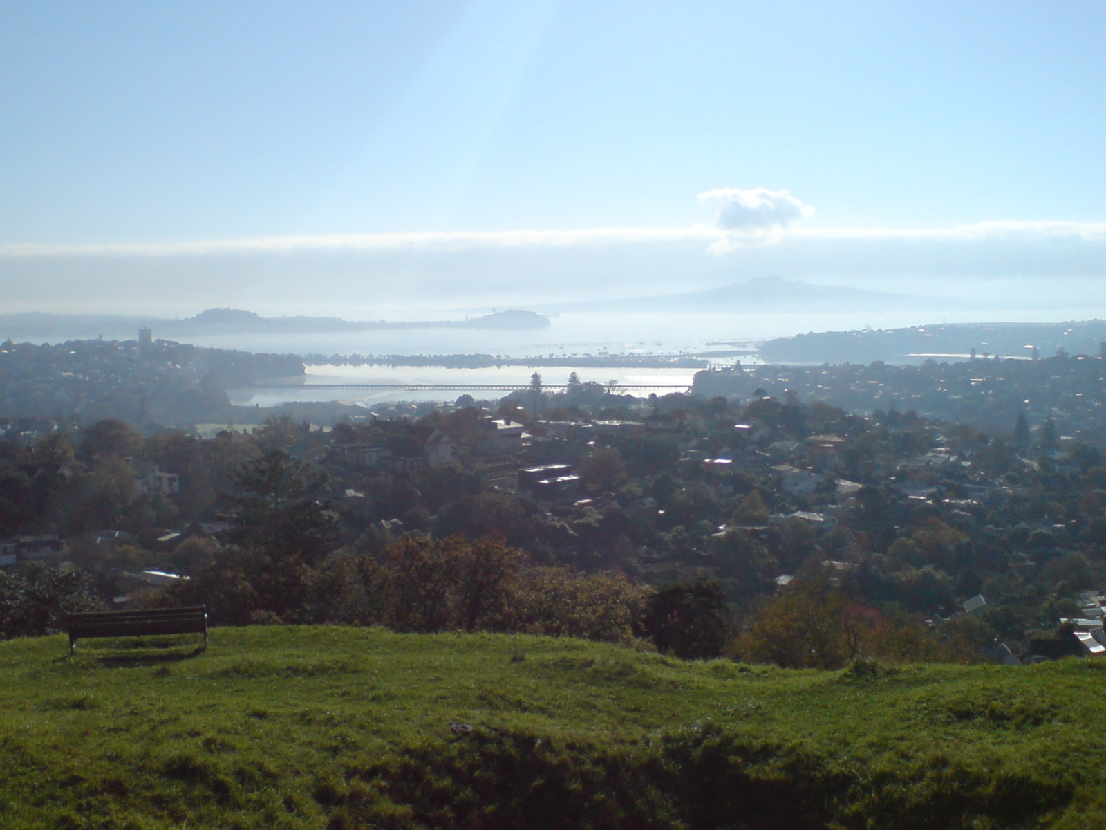 Hobson Bay in Auckland City, New Zealand, looking north from Mount Hobson. In the far distance to the right, Rangitoto Island can be seen. In the middle distance, Mount Victoria (left centre) and North Head (right centre) are visible. Hobson Bay is in the middle, divided from the Waitemata Harbour by Tamaki Drive. Near the front are Parnell in the west, western Remuera (close-by) and Orakei (far distance at the right, below Rangitoto).